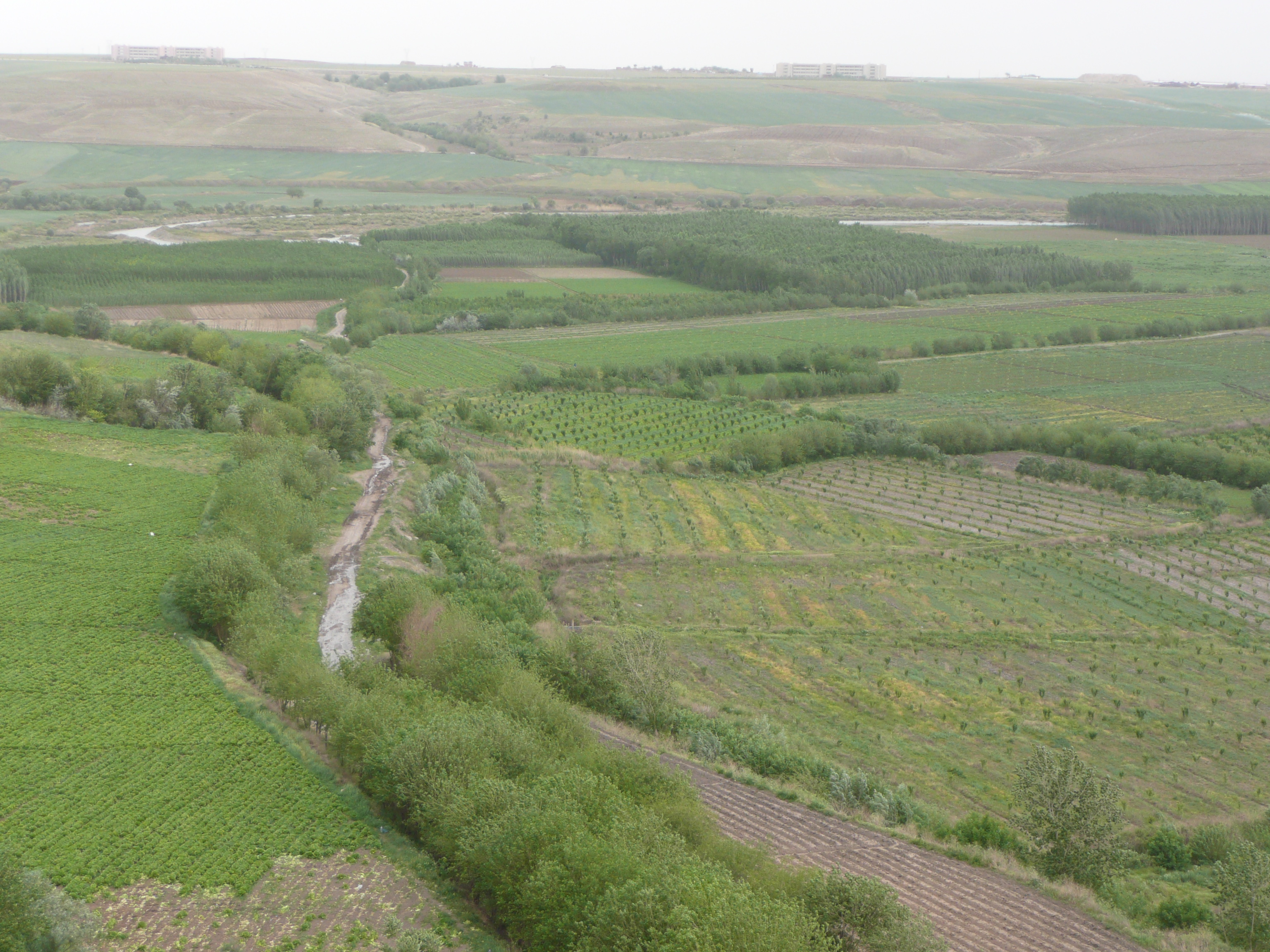 Photographs from Diyarbakir, Turkey